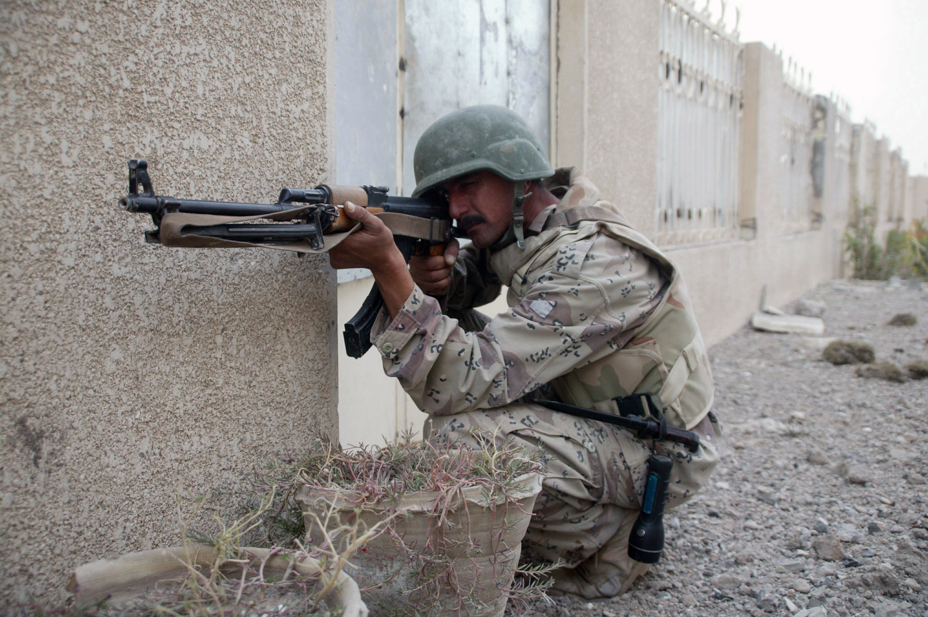 An Iraq Army Soldier armed with a 5.56mm Zastava M72 assault rifle prepares to engage insurgents outside a Mosque while conducting offensive operation to eradicate enemy forces within the city of Fallujah in support of continuing security and stabilization operations in the Al Anbar Province of Iraq, during Template:Second Battle of Fallujah.